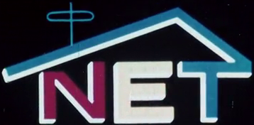 The original Color NET logo